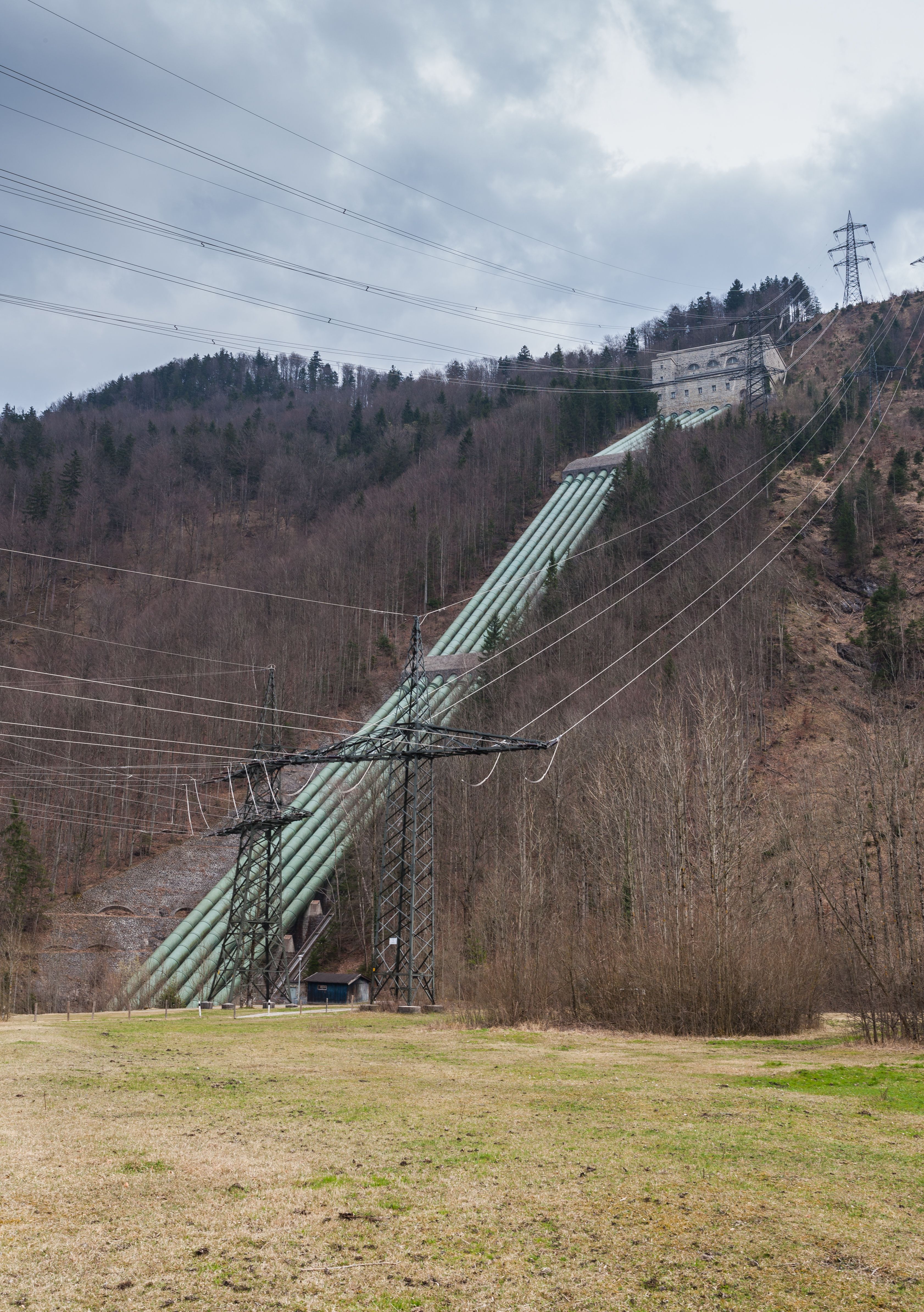 Walchensee hydroelectric power plant, Kochel, Bavaria, Germany